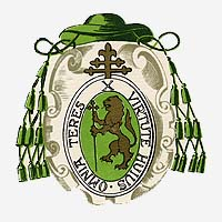 Coat of arms of archbishop Joan Terès i Borrull